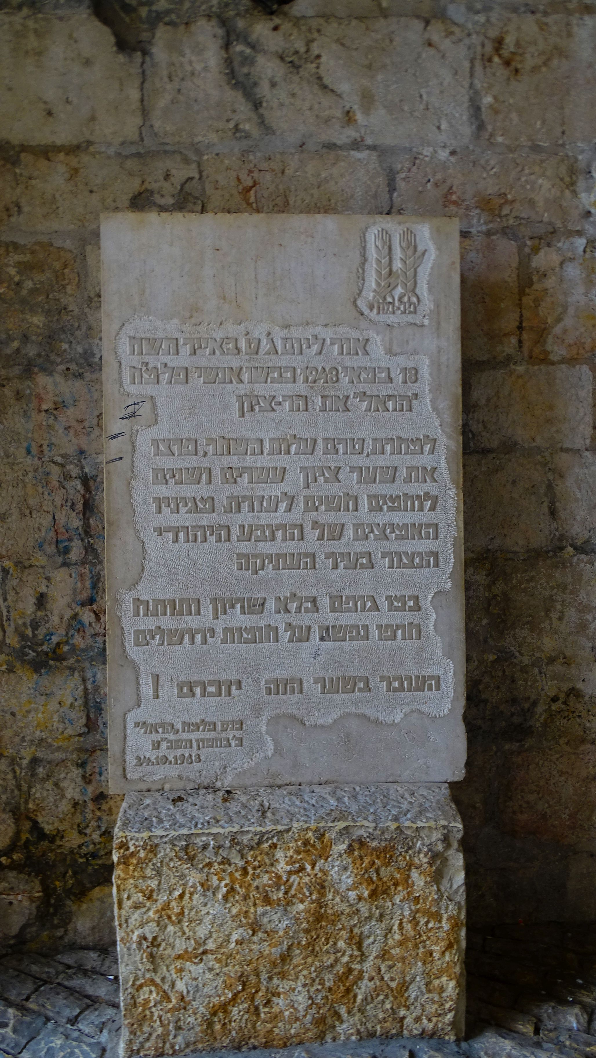 Zion Gate in the Jerusalem Wall